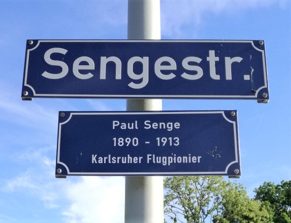 Street name in honour of the aviation pioneer Paul Senge in Karlsruhe